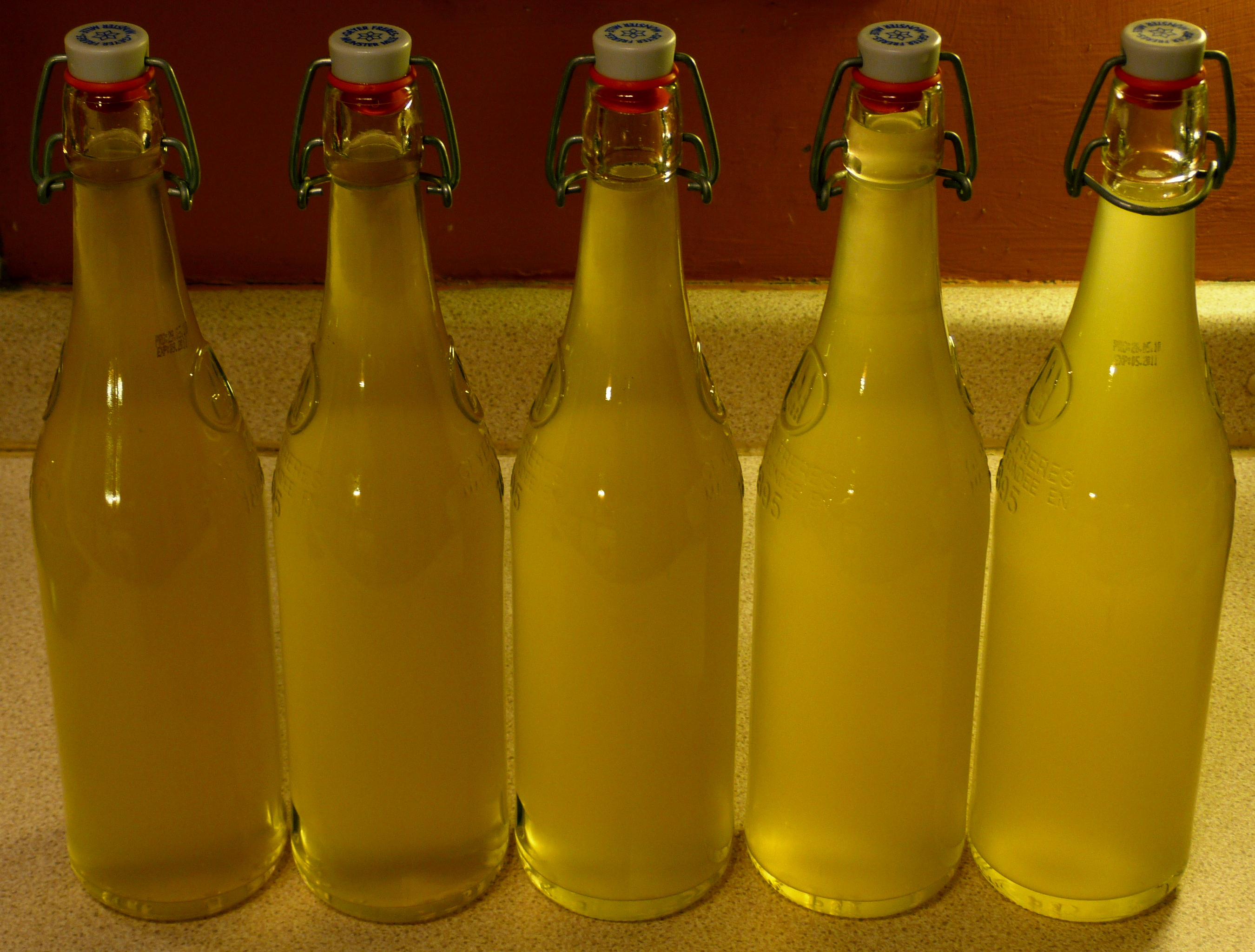 Elderflower cordial in bottles